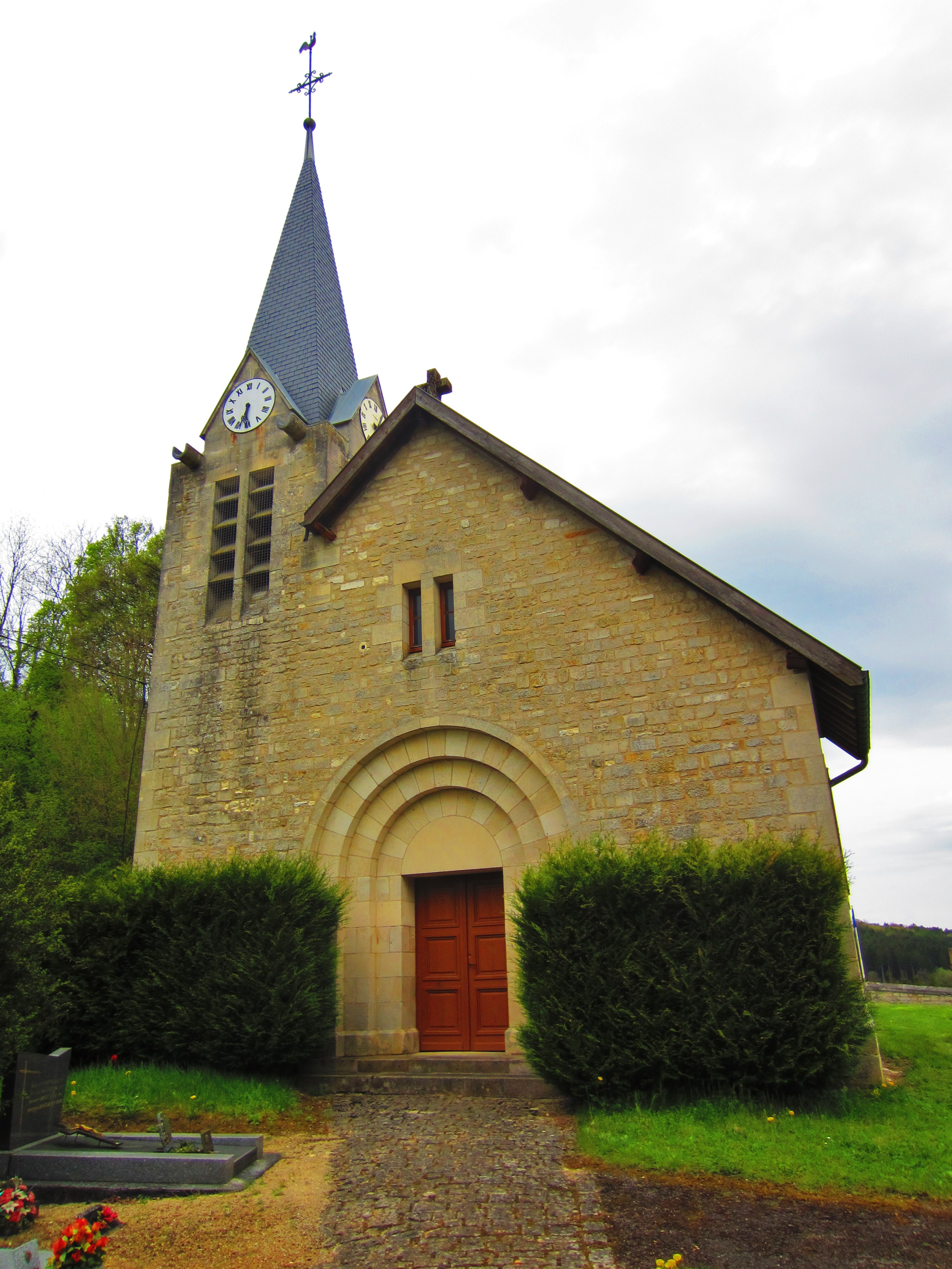 St Remy Calonne church